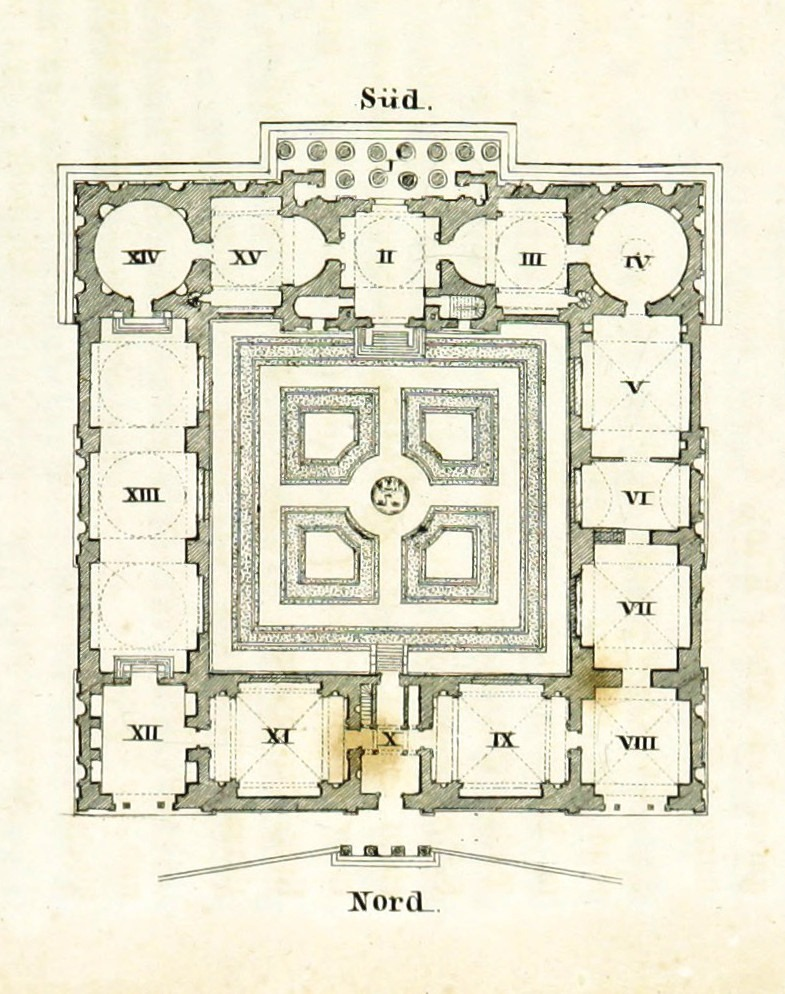 Image extracted from the page after page 318 of "München mit seinen Umgebungen historisch, topographisch, statistisch dargestellt ... Mit Stahlstichen, Lithographien und Vignetten". Original held and digitised by the British Library. Note: The colours, contrast and appearance of these illustrations are unlikely to be true to life. They are derived from scanned images that have been enhanced for machine interpretation and have been altered from their originals.